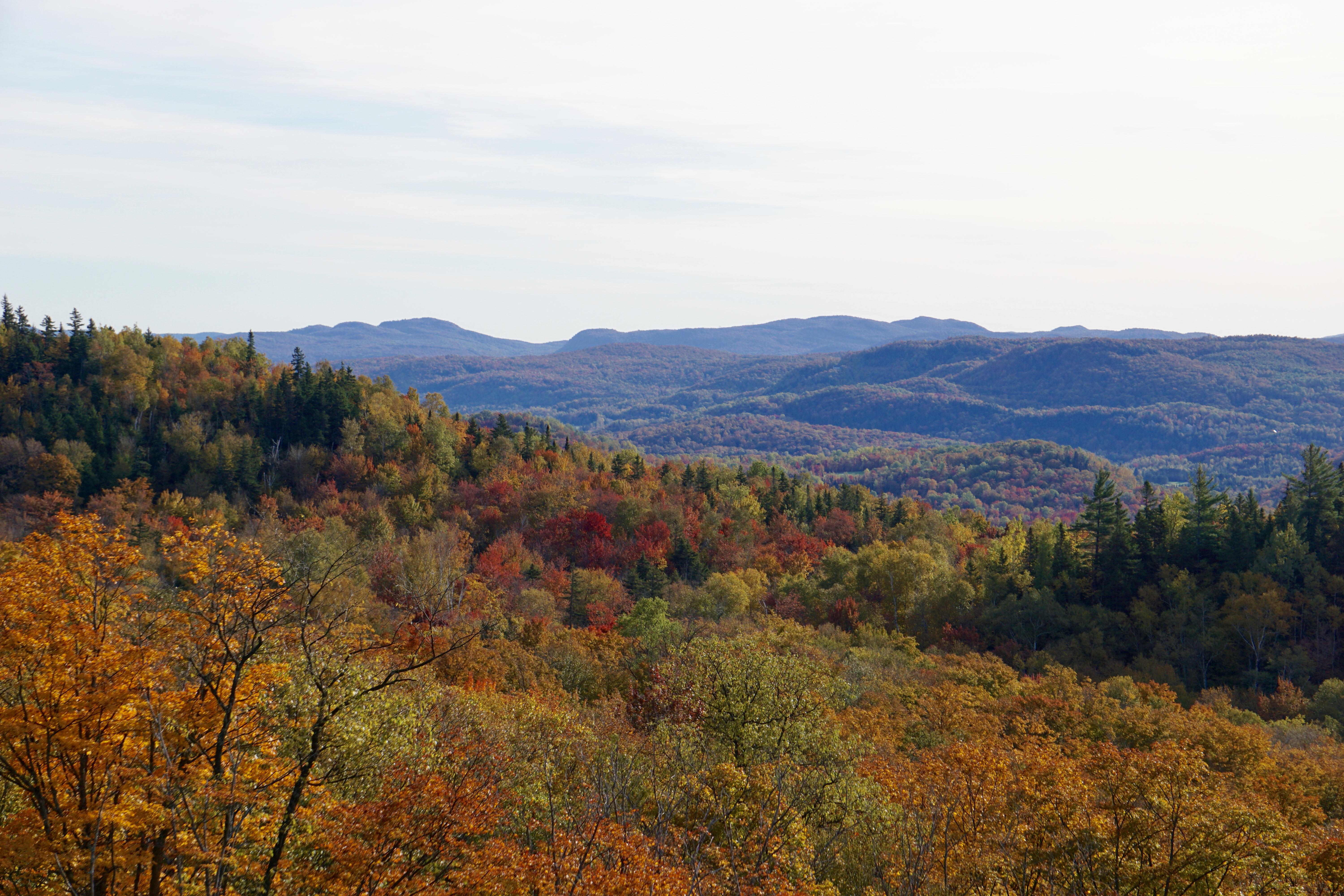 Fall foliage at Mont Tremblant as seen from the Mont Tremblant Resort gondola